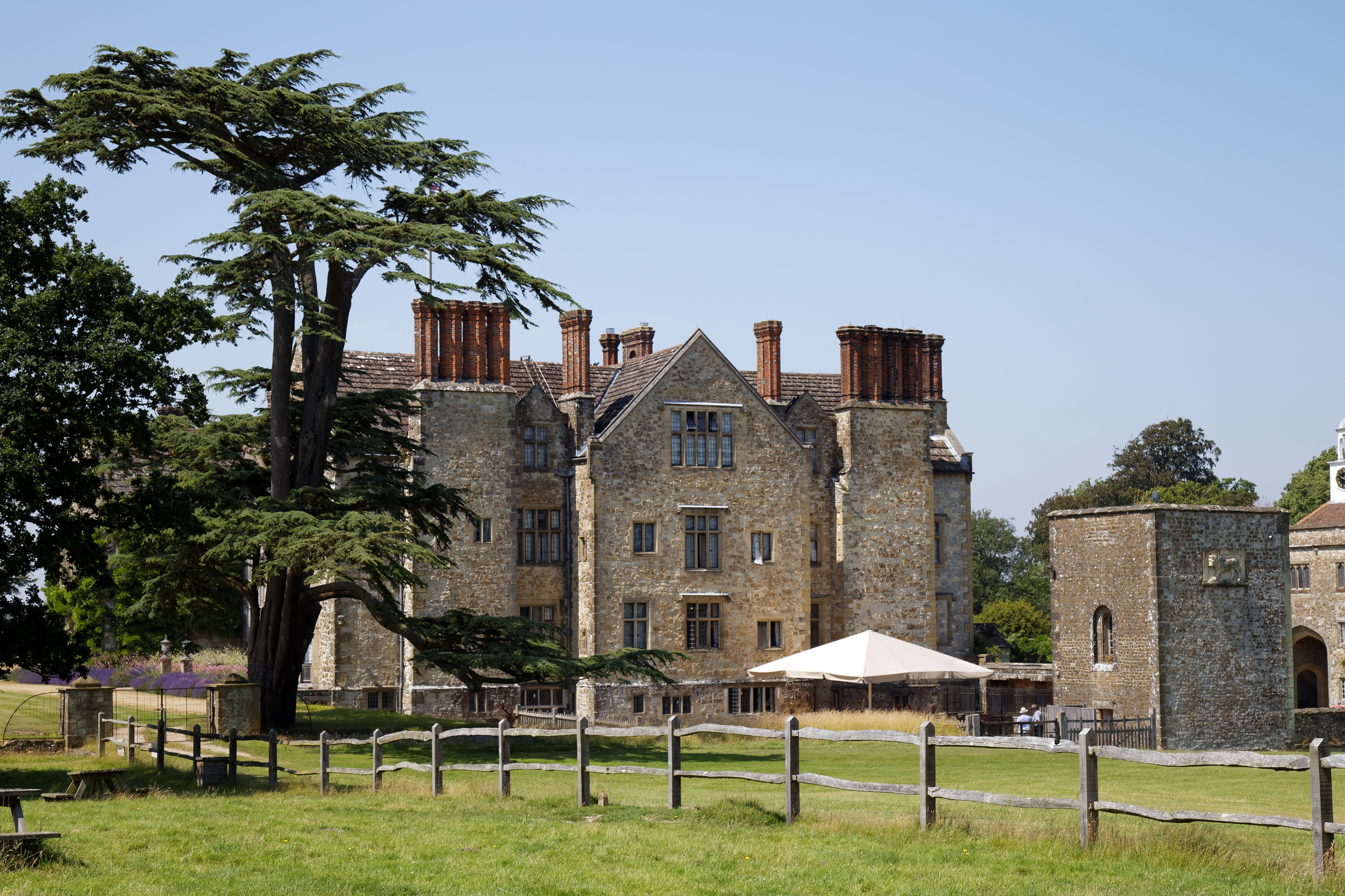 A Lebanon cedar in a lawn at the east face of Parham House, in West Sussex, England.Camera: Canon EOS 6D with Canon EF 24-105mm F4L IS USM lens.Software: file lens-corrected and optimized with DxO OpticsPro 10 Elite and Viewpoint 2, and further optimized with Adobe Photoshop CS2.